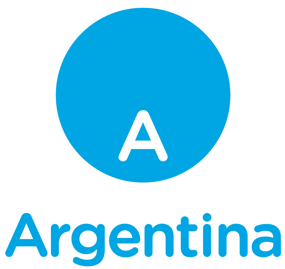 Official logo of the brand "Argentina", created to identify the nation worlwide.